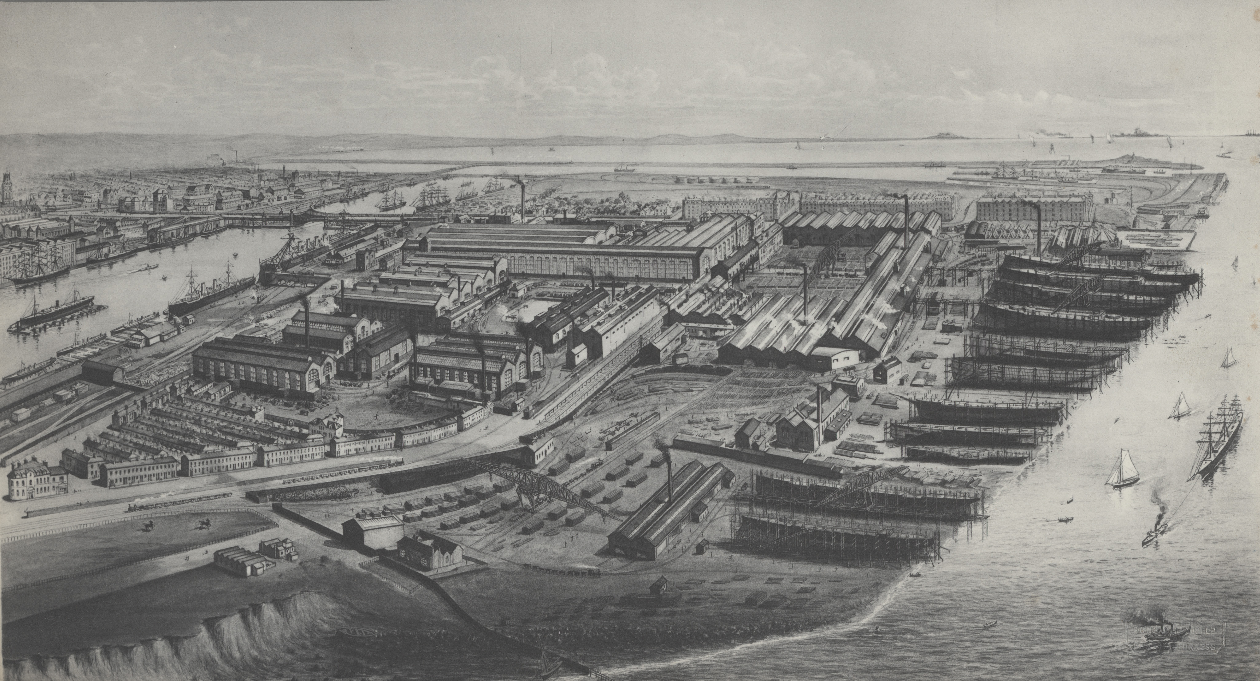 Format: Fotopositiv (tegning) Dato / Date: ca. 1900 Fotograf / Photographer: Ukjent Sted / Place: Barrow-in-Furness, England Wikipedia: Vickers Wikipedia: Barrow-in-Furness Eier / Owner Institution: Trondheim byarkiv, The Municipal Archives of Trondheim Arkivreferanse / Archive reference: Tor.H44.L01.F9323